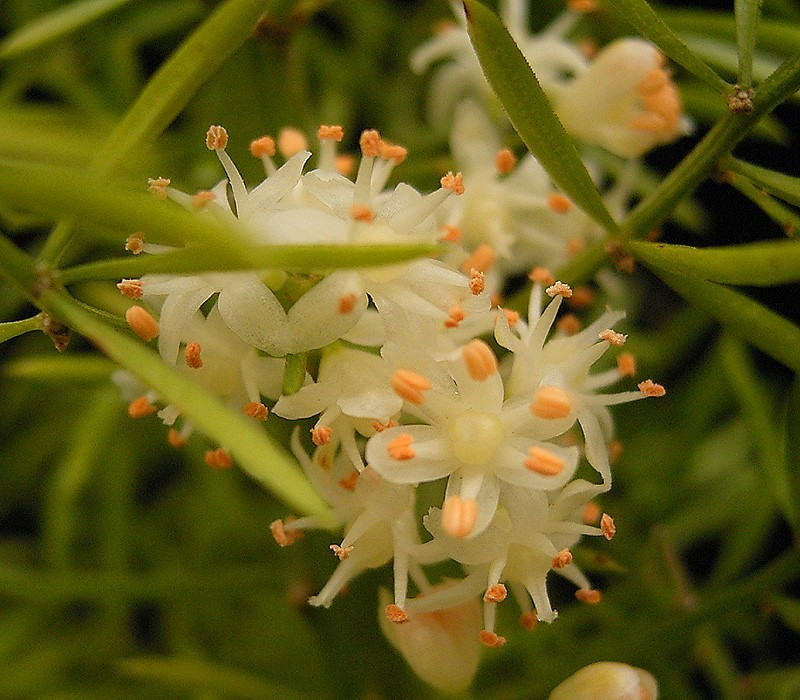 Flowers of Asparagus densiflorus